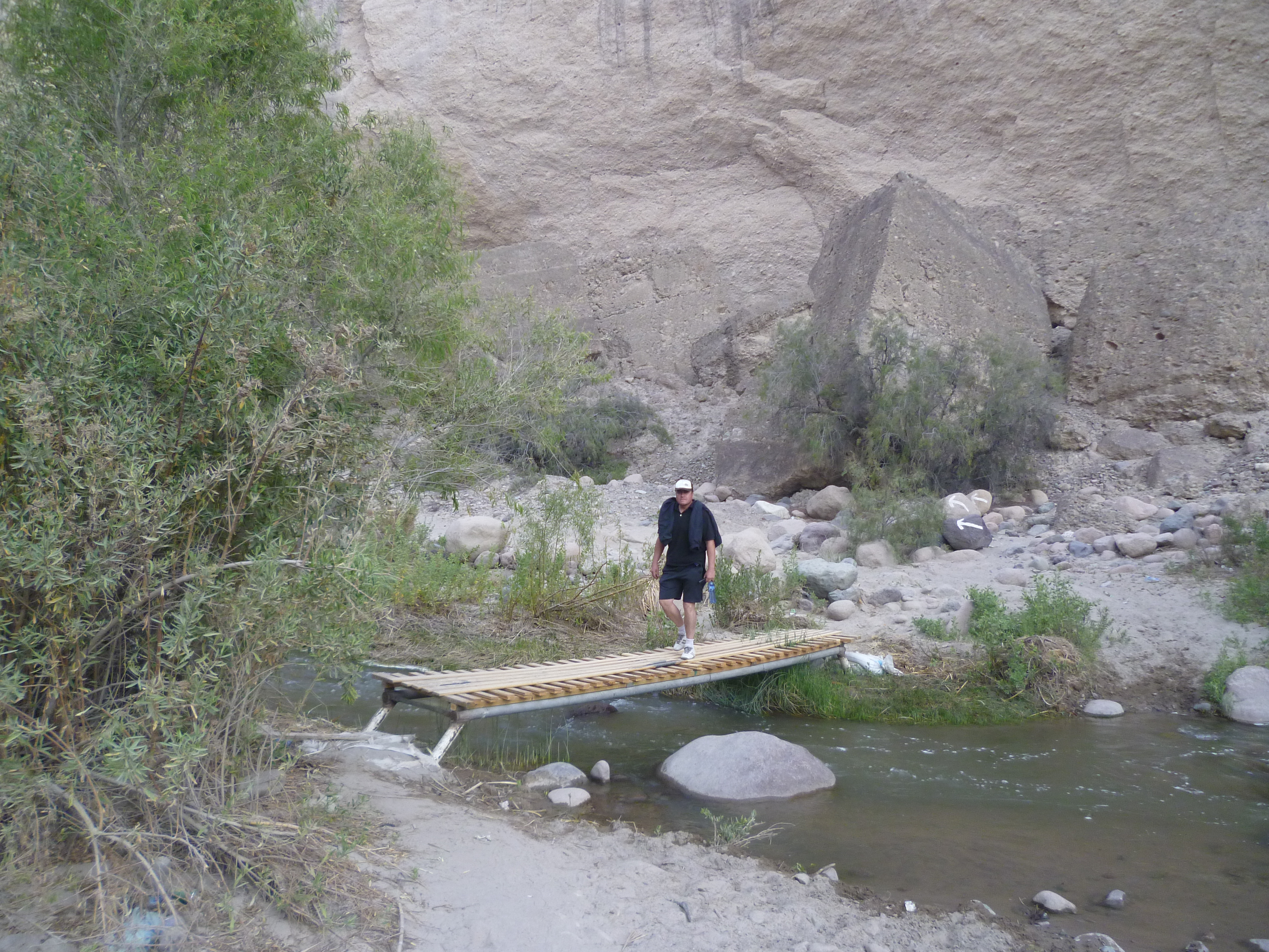 Puente camino a las Peñas (Livilcar-Arica)